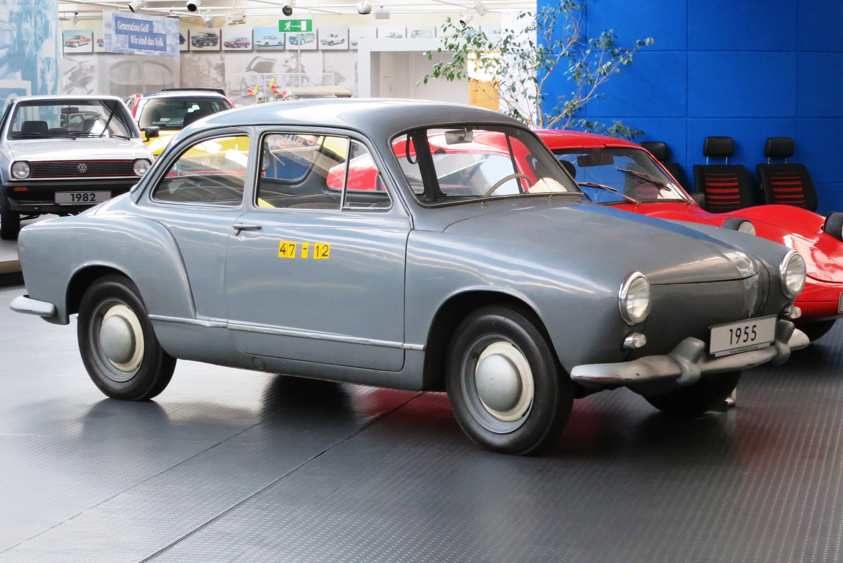 Volkswagen EA47 Beetle successor proposal (1955) which in this form never got past the prototype stage, though it evidently inspired the Typ 3 announced in 1961